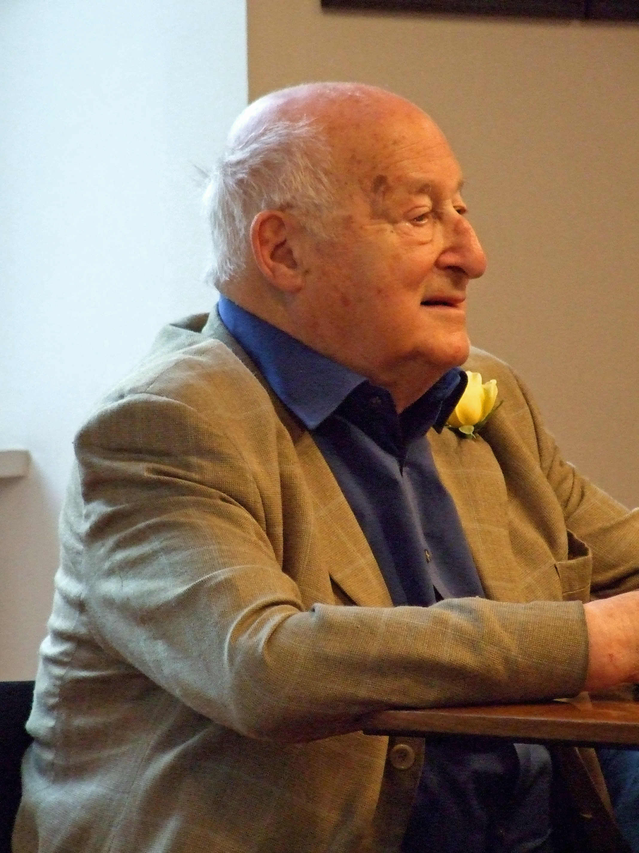 Eric Koch, canadian journalist and writer during a reading from his book "Die Braut im Zwielicht" at Frankfurt am Main